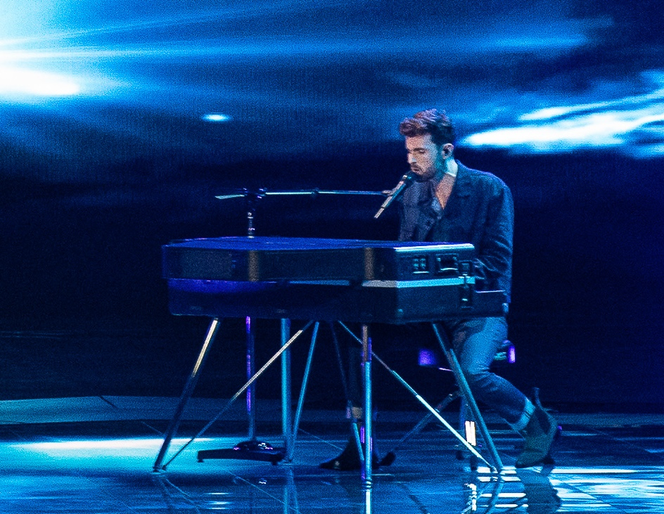 Duncan Laurence (The Netherlands 2019)